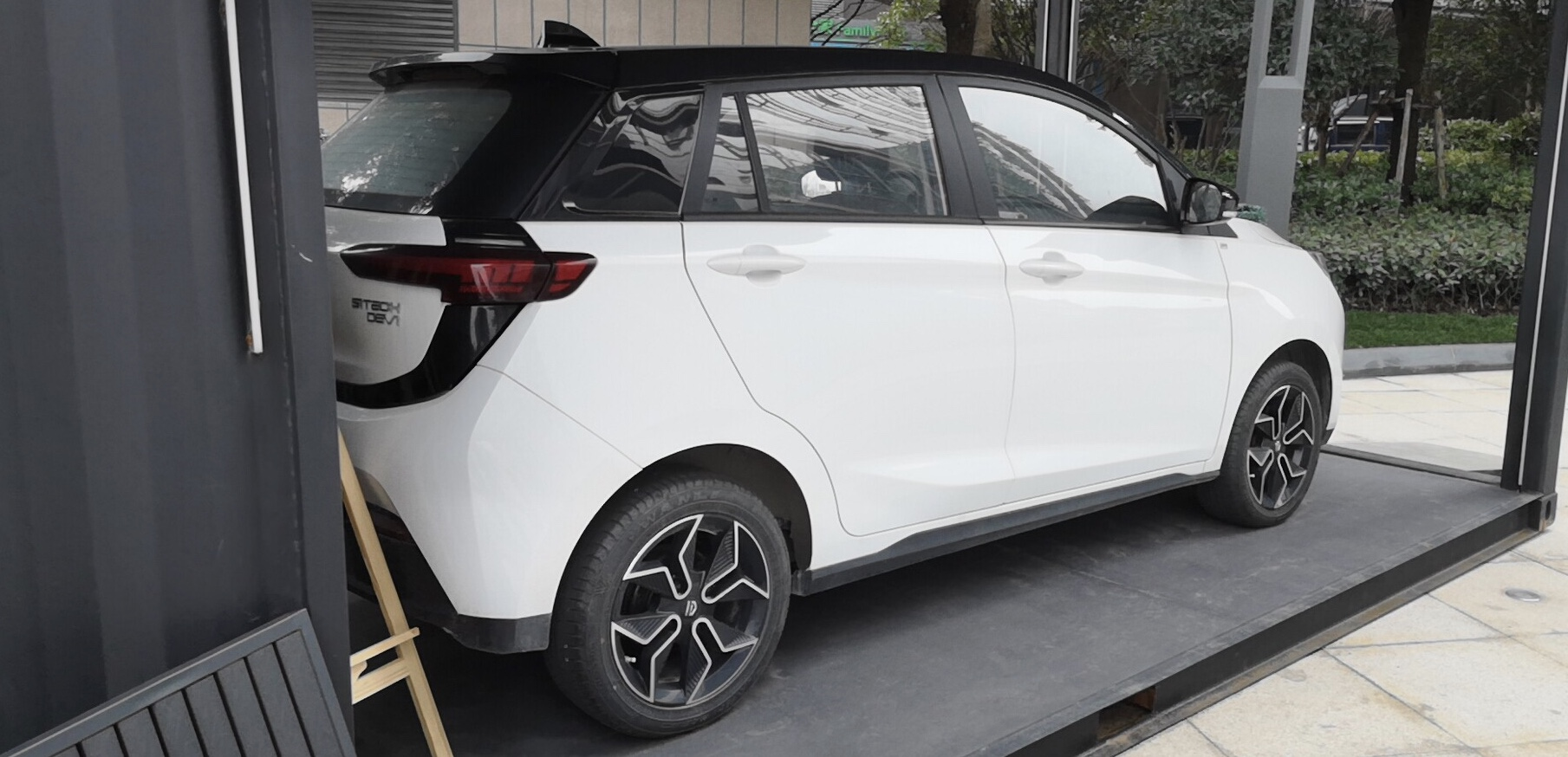 Sitech DEV1 rear